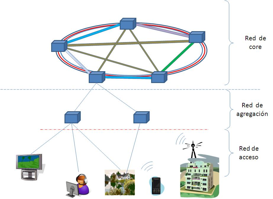 General architecture of a telecommunications network